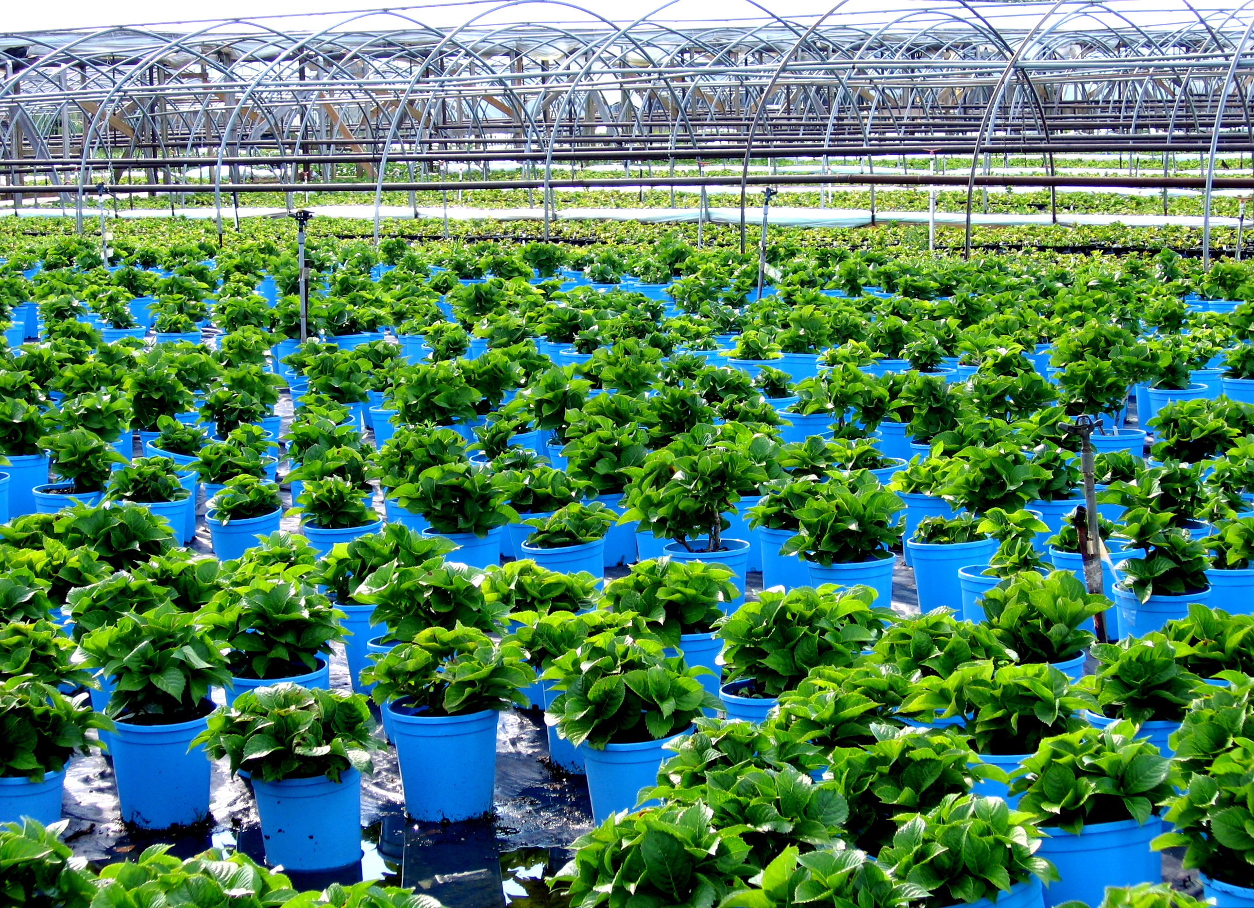 Plant nursery-Horticulture nursery in Suffolk County, New York, U.S.